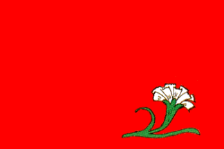 Flag